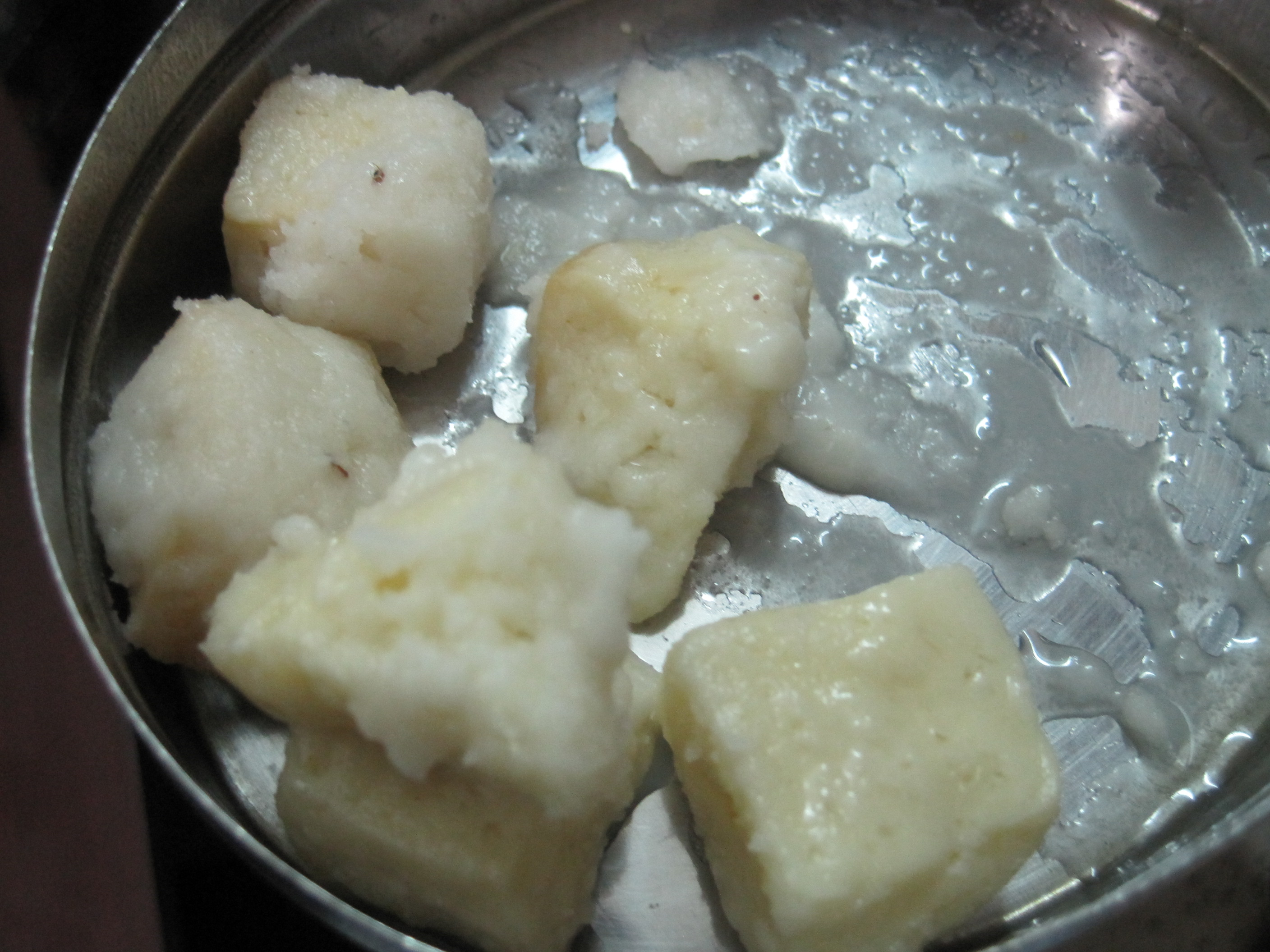 Chanamukhi, Sweetmeat of Bangladesh.